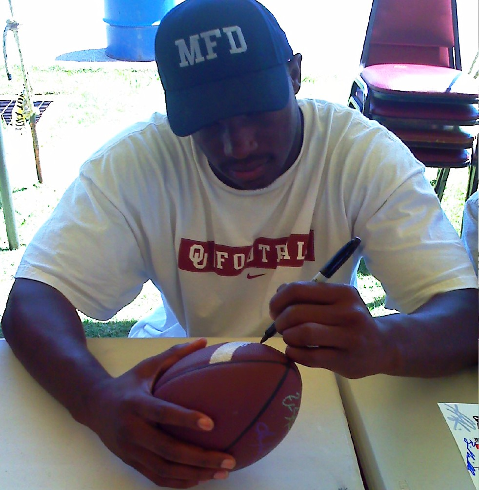 Rufus Alexander at the Josh Heupel Day of Champions Football Camp on July 19, 2008.